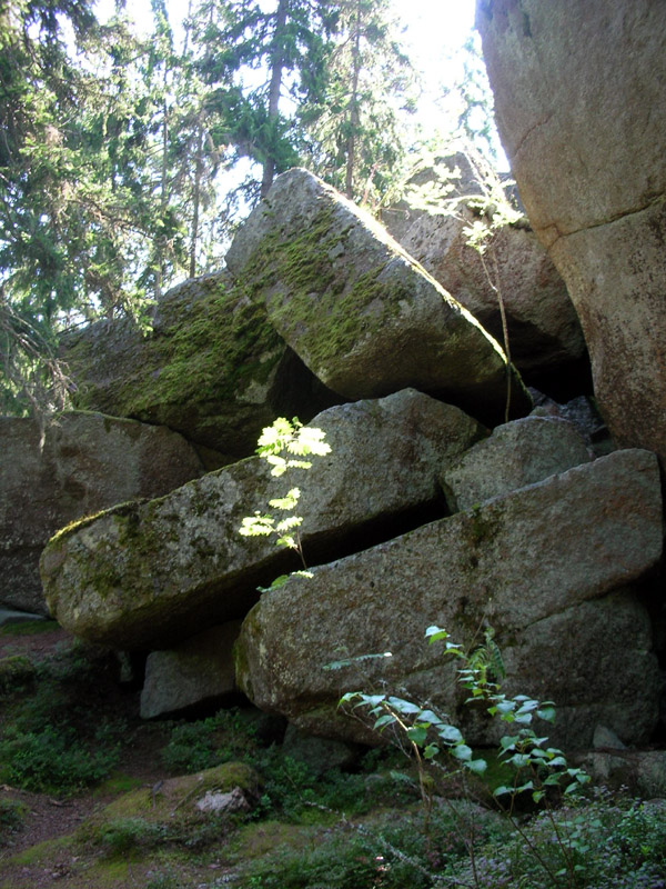 The caves of Jeremiah, Kustavi, Finland